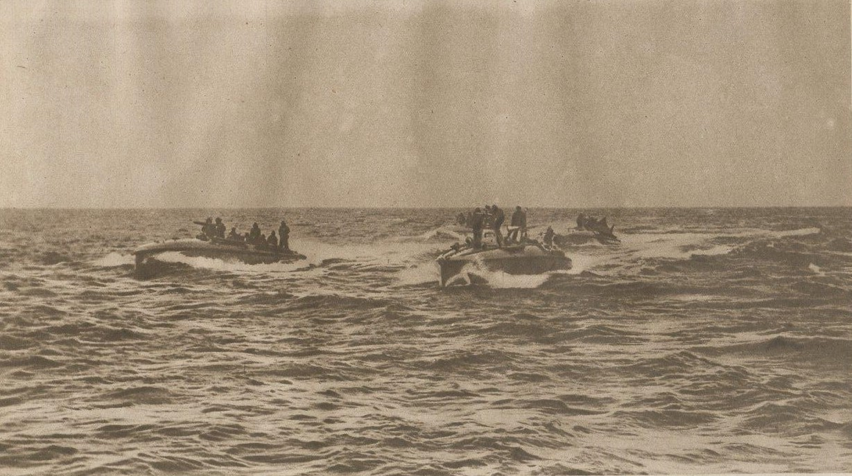 Italian speedboats loaded hunting submarines in the Adriatic Sea in 1917. Photograph published by the weekly Le Miroir December 9, 1917.